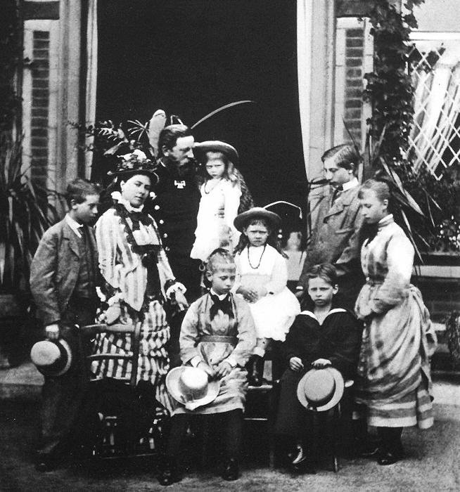 Crown Princely Family from left to right: Prince Wilhelm (later Wilhelm II) The Crown Princess, The Crown Prince, Princess Margaret, Princess Viktoria, Princess Sophie, Prince Waldemar, Prince Henry and Princess Charlotte